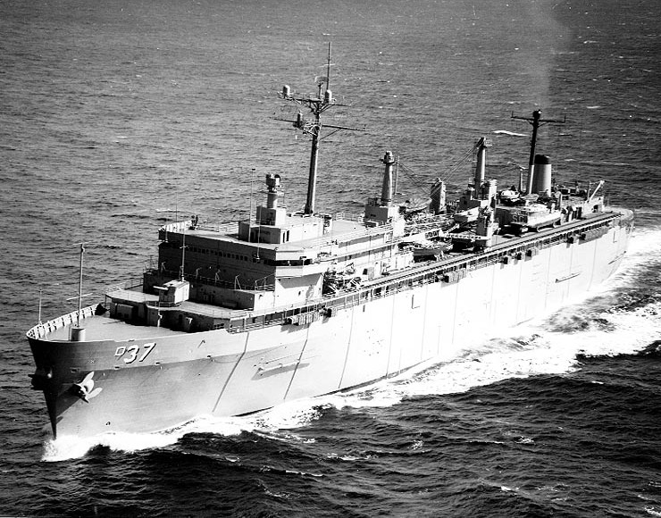 The U.S. Navy destroyer tender USS Samuel Gompers (AD-37) underway off the coast of Oahu, Hawaii (USA), 24 November 1968.